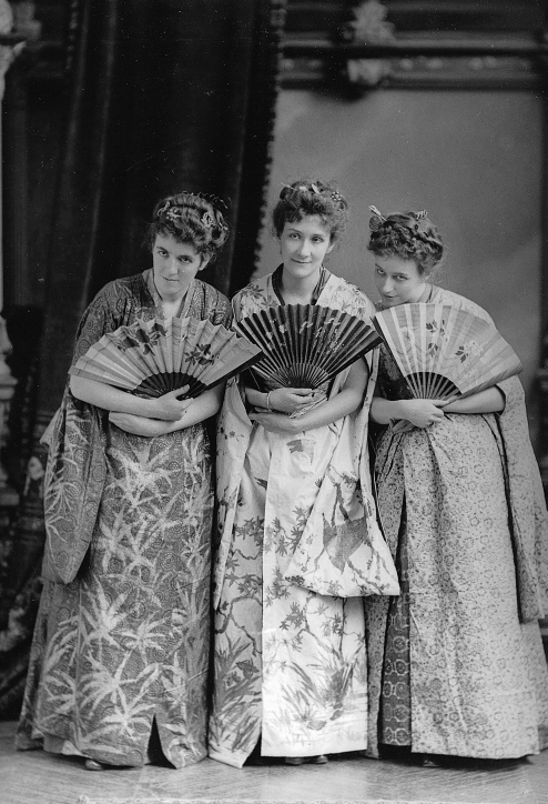 Three daughters of R.B. Angus of Montreal taken for the Castanet Club composite, 1886